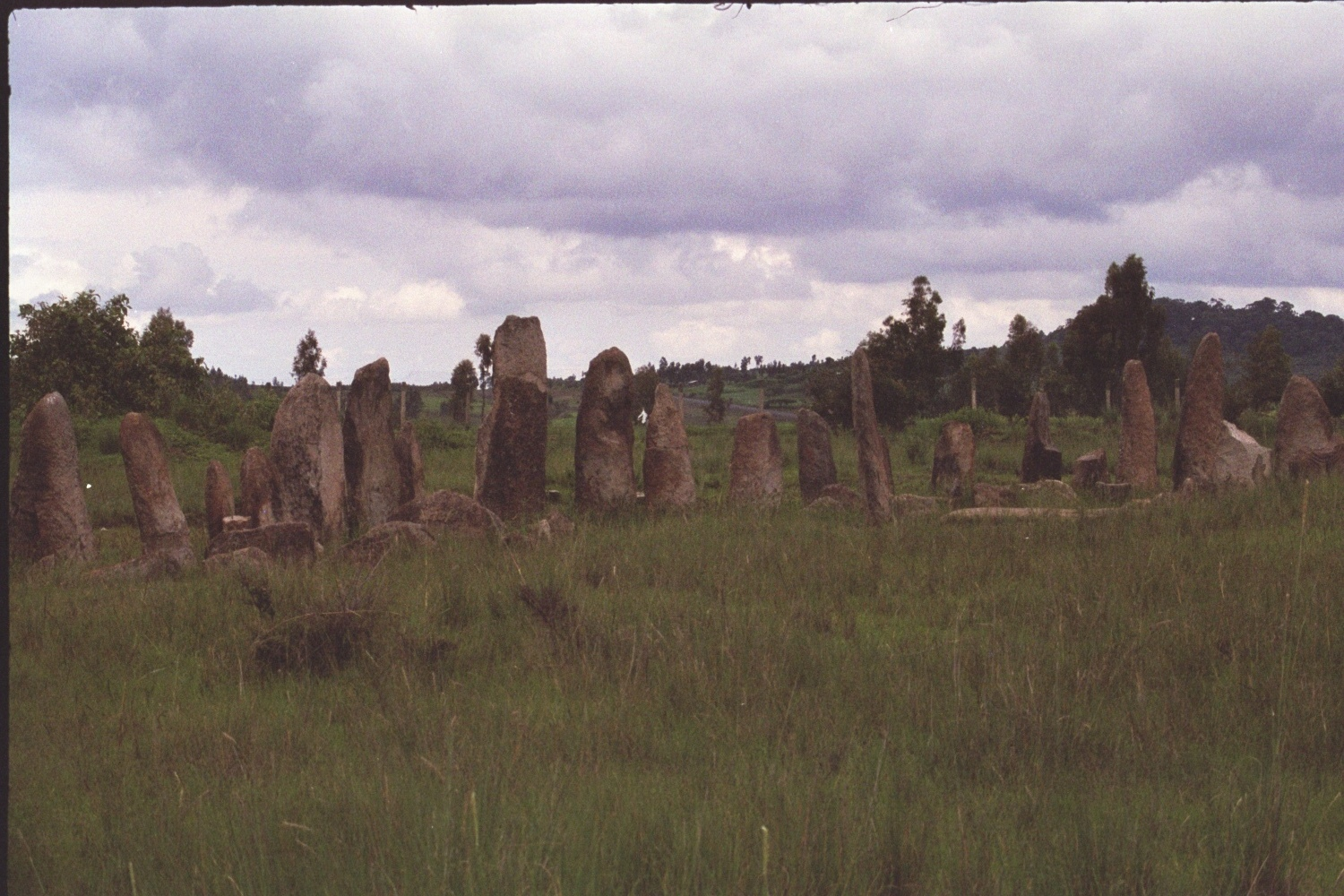 Stelae from the Tiya, Ethiopia